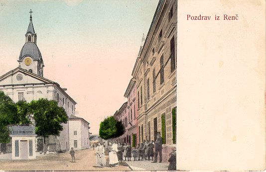 Postcard of Renče.